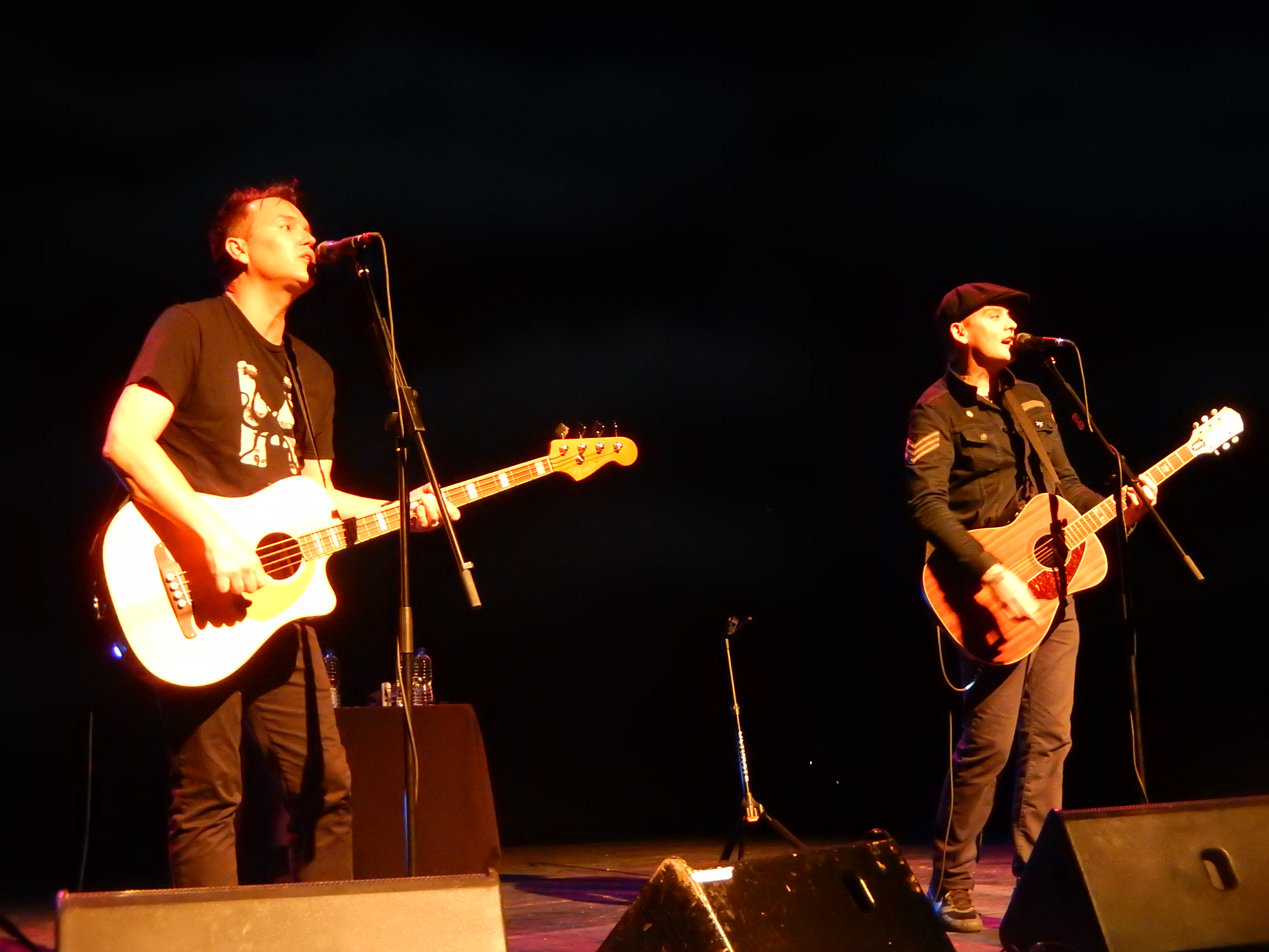 Blink-182 (Mark Hoppus, Matt Skiba) perform an acoustic set at the Rose Theatre in Kingston.